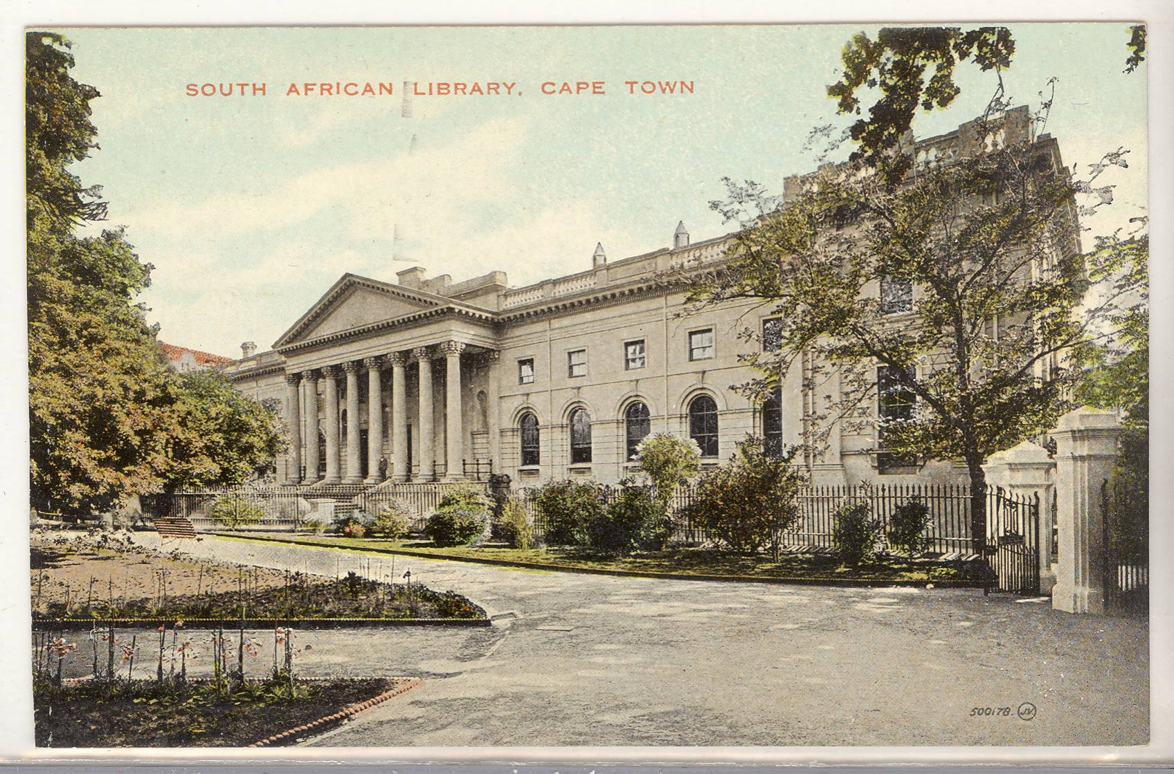 South African Library, Capetown, South Africa